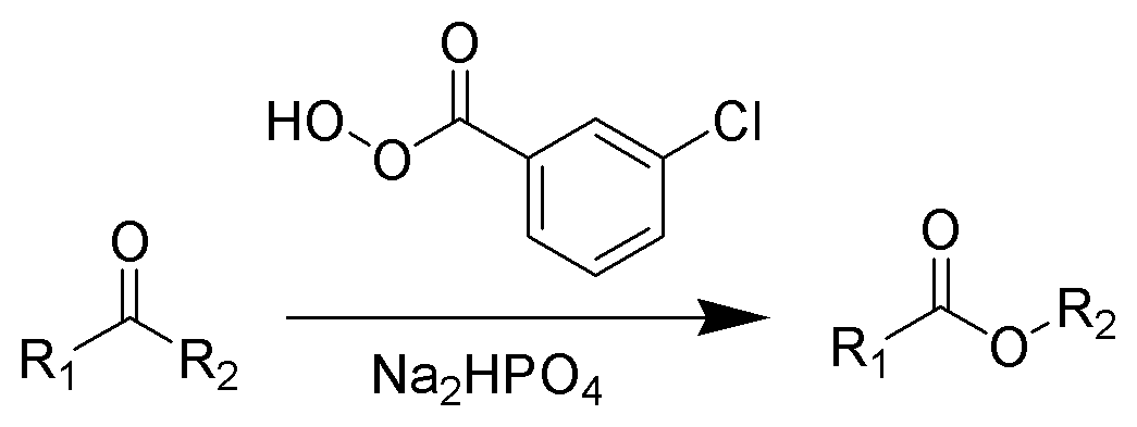 Description: Reaction scheme of the Baeyer-Villiger oxidation. Author, date of creation: selfmade by ~K, 30 October 2005. Source: - Copyright: Public domain. (PD) Comments: high-resolution b/w PNG; ChemDraw / The GIMP.